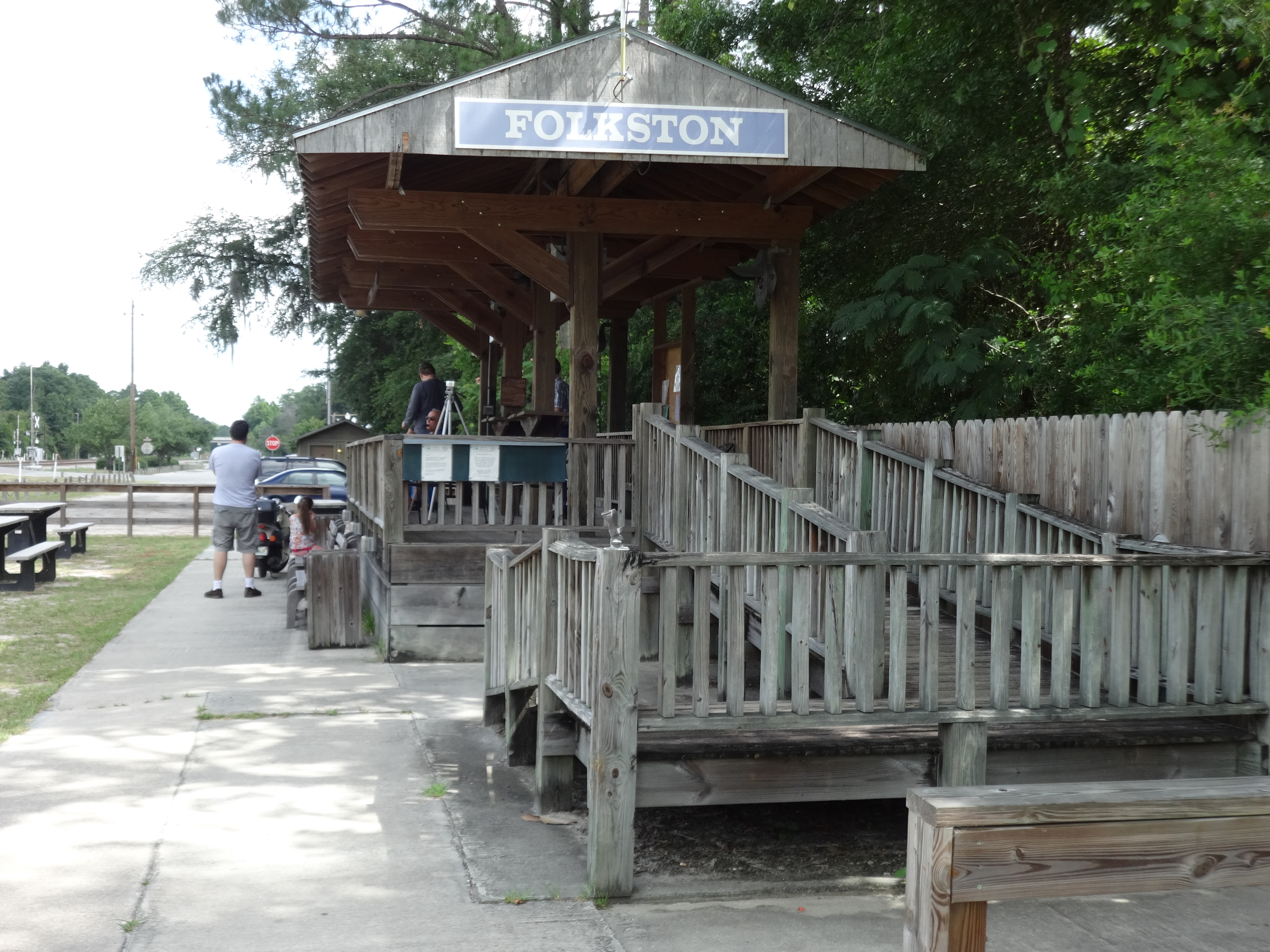 Folkston, Charlton County, Georgia